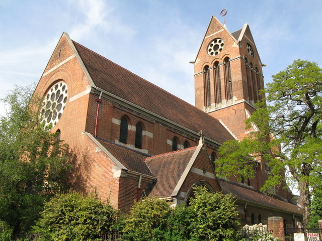 Part of St Luke's parish church, Oseney Crescent, Kentish Town, London NW5, seen from the south